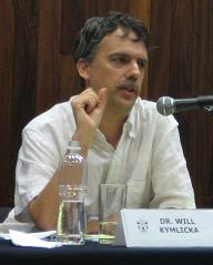 The is a picture of Will Kymlicka that I took myself at the University of Guadalajara, Mexico, in June 2007. It will be used to illustrate the article about Kymlicka.